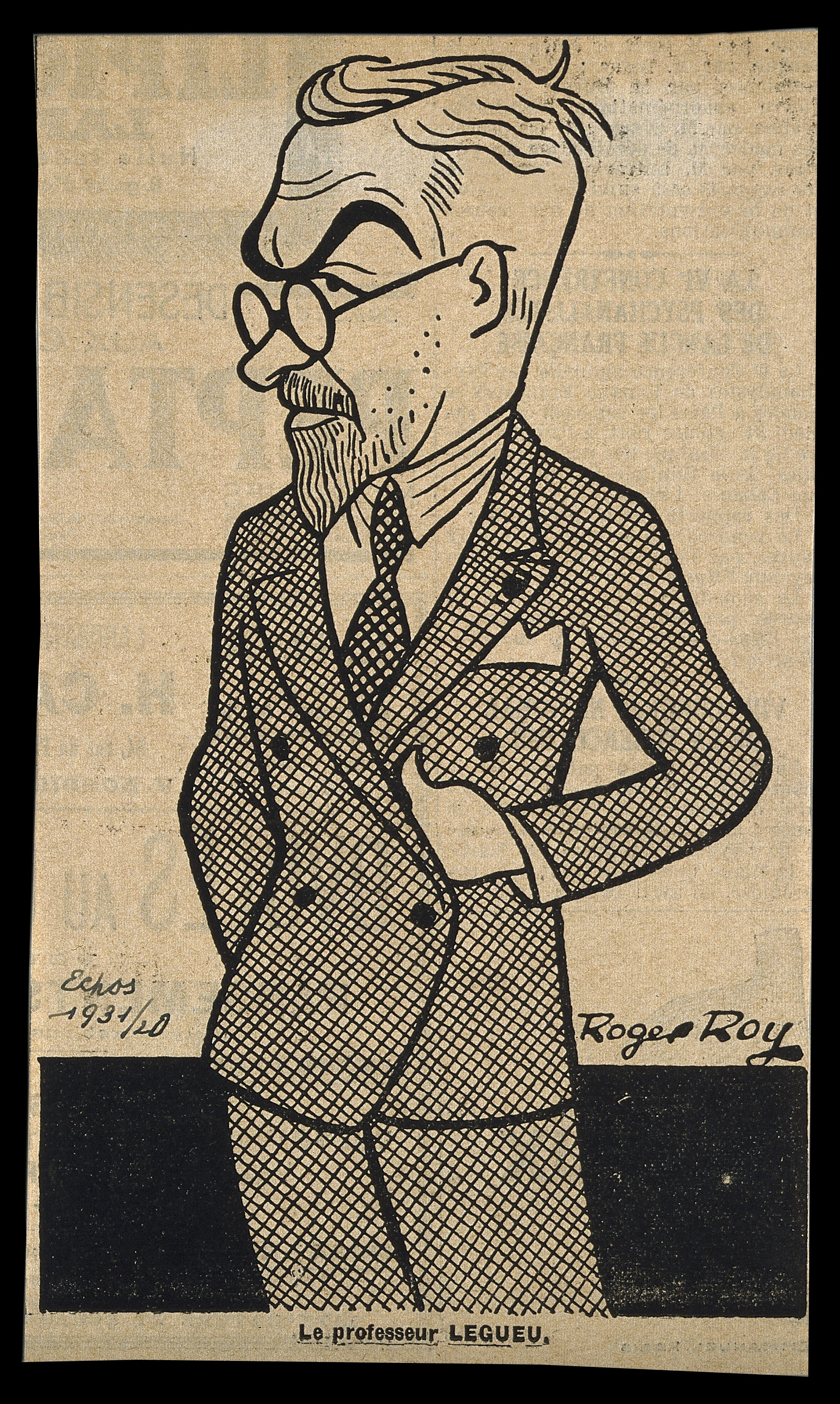 Félix Legueu. Reproduction of drawing by R. Roy, 1931. Iconographic Collections Keywords: portrait prints; Félix Legueu